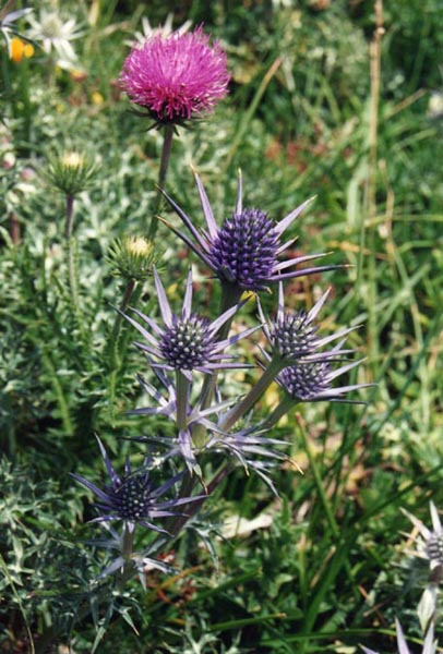 Eryngium bourgatii